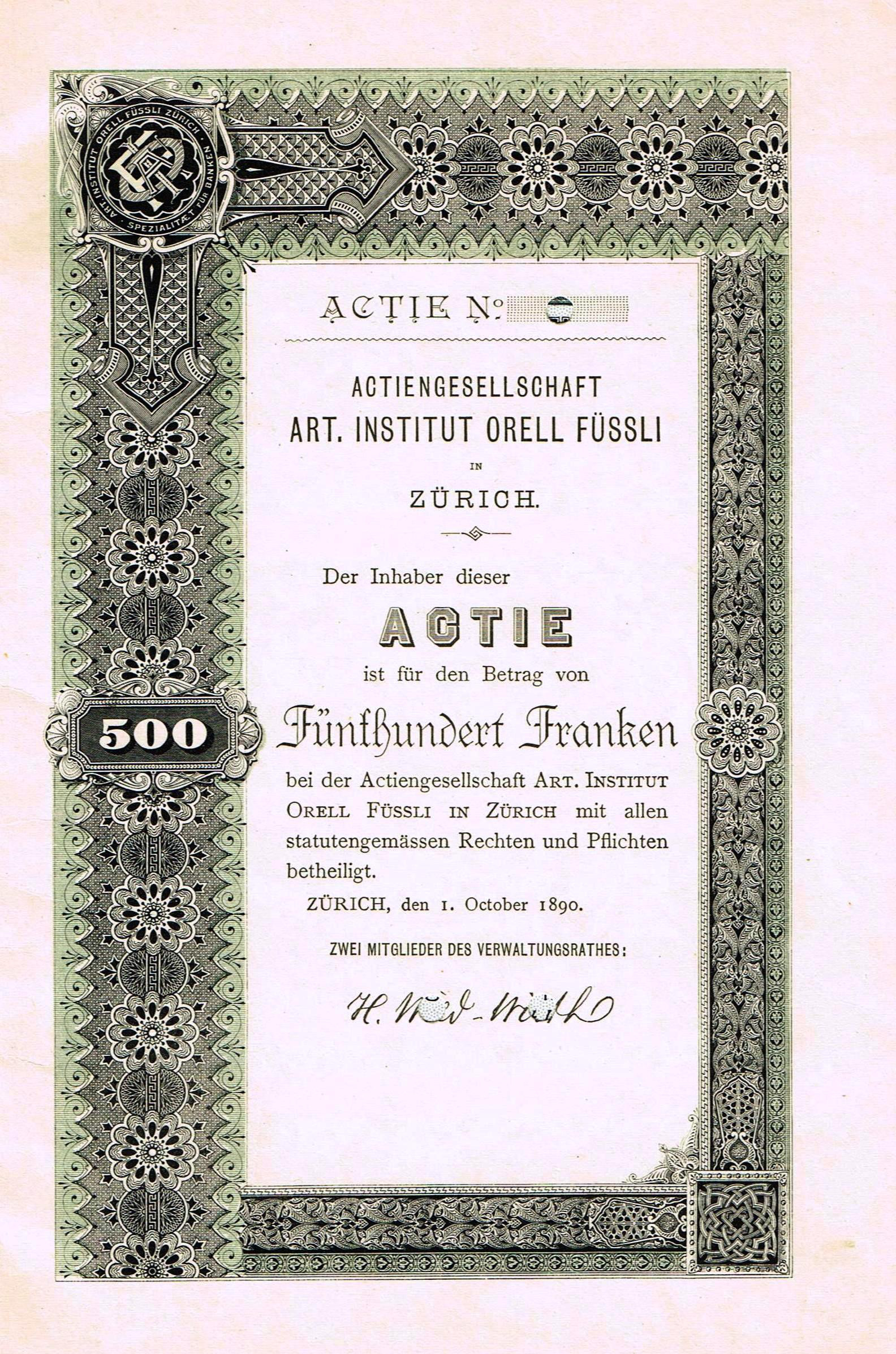 Share of the AG Art. Institut Orell Füssli, issued 1. October 1890